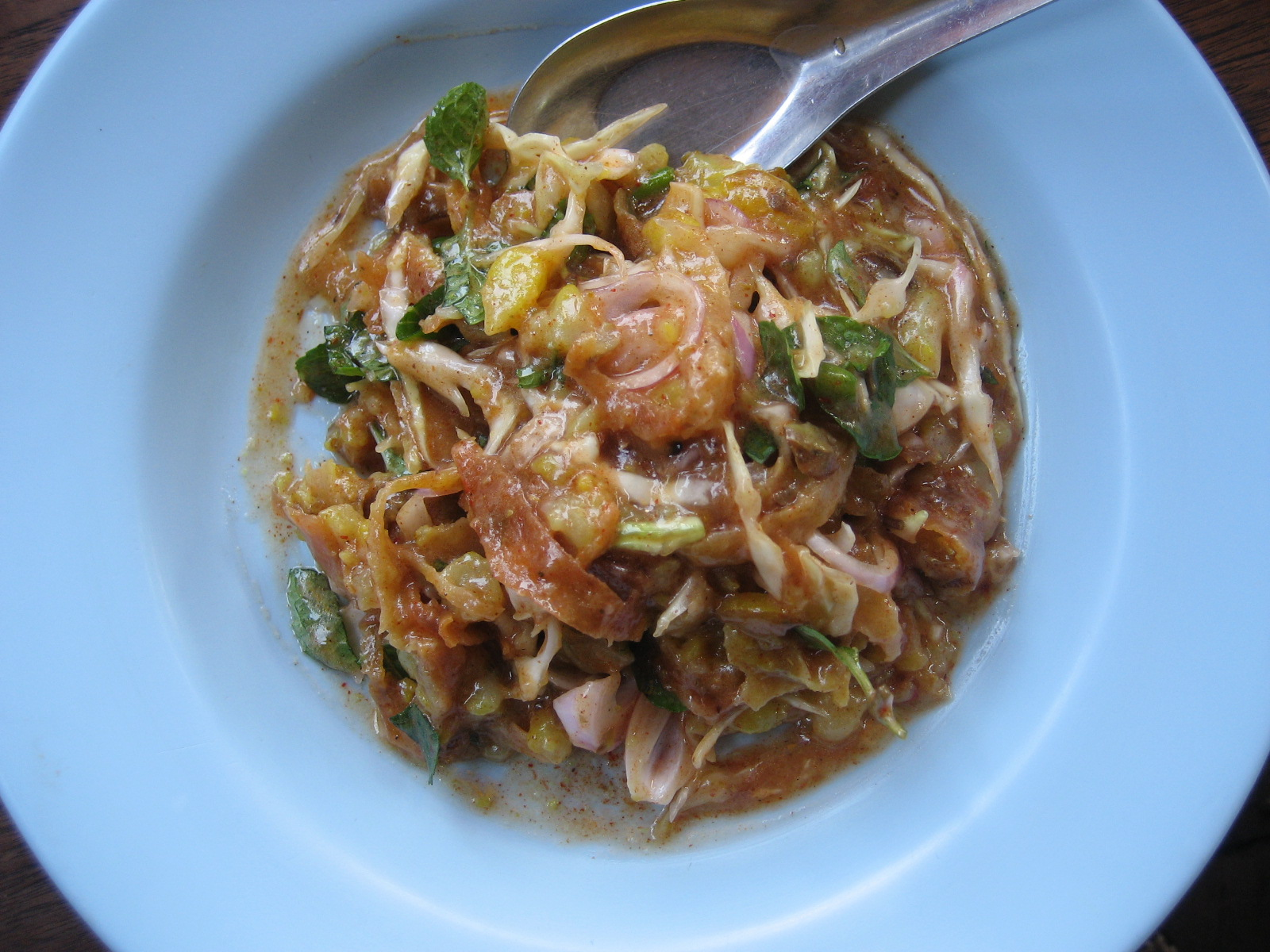 samosa salad at Min Thiha, Mandalay